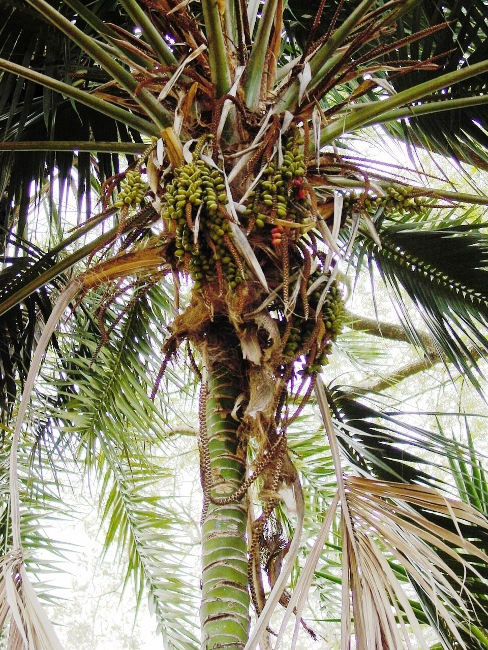 Howea forsteriana Orto botanico , Palermo - 2006